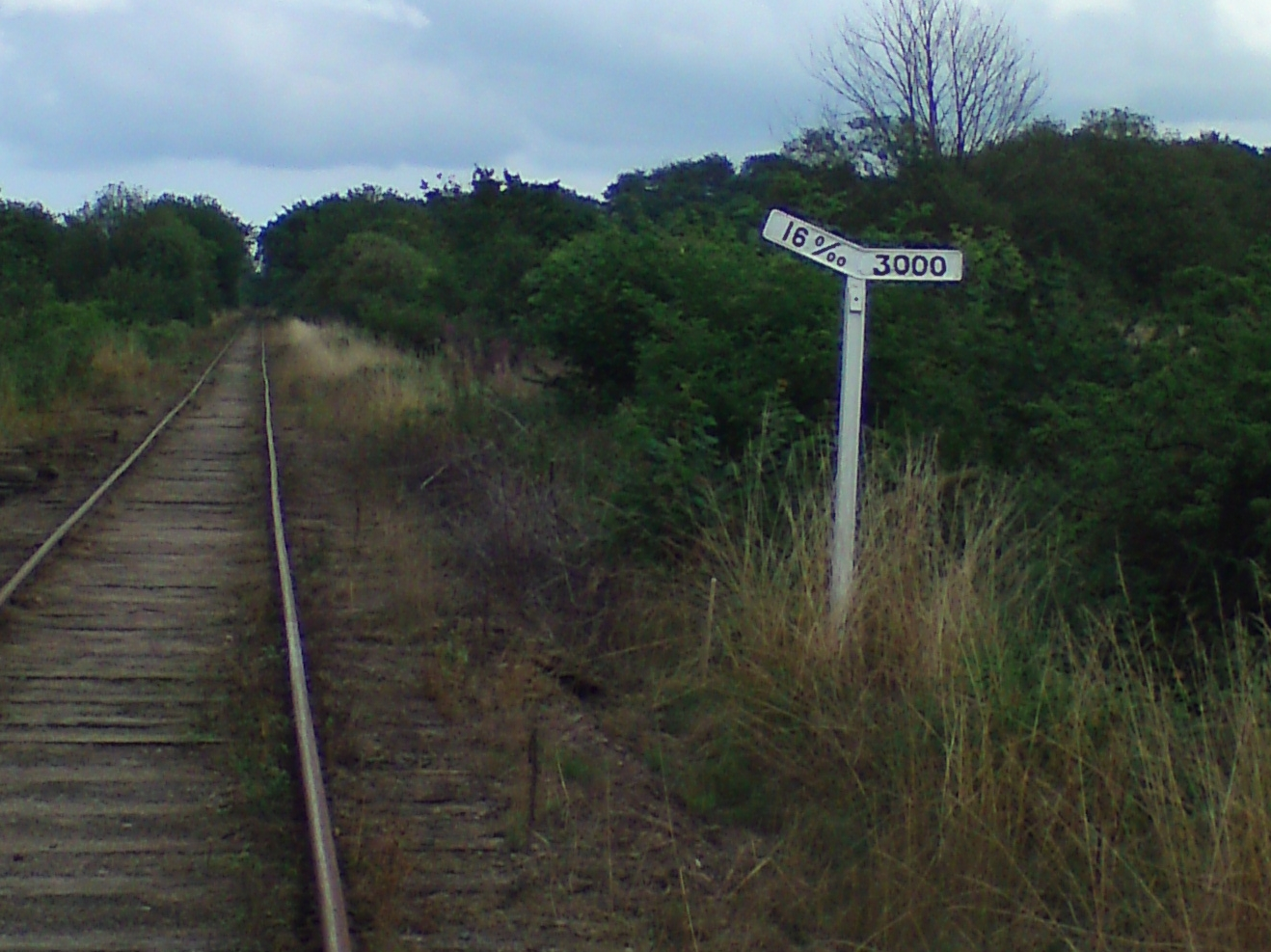 Slope indicator on Swedish state railways